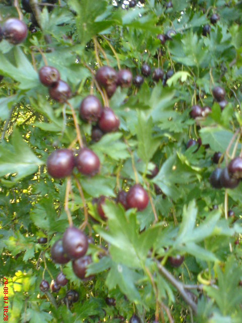 Common Hawthorn (Crataegus monogyna) fruits in Kew Gardens, England.